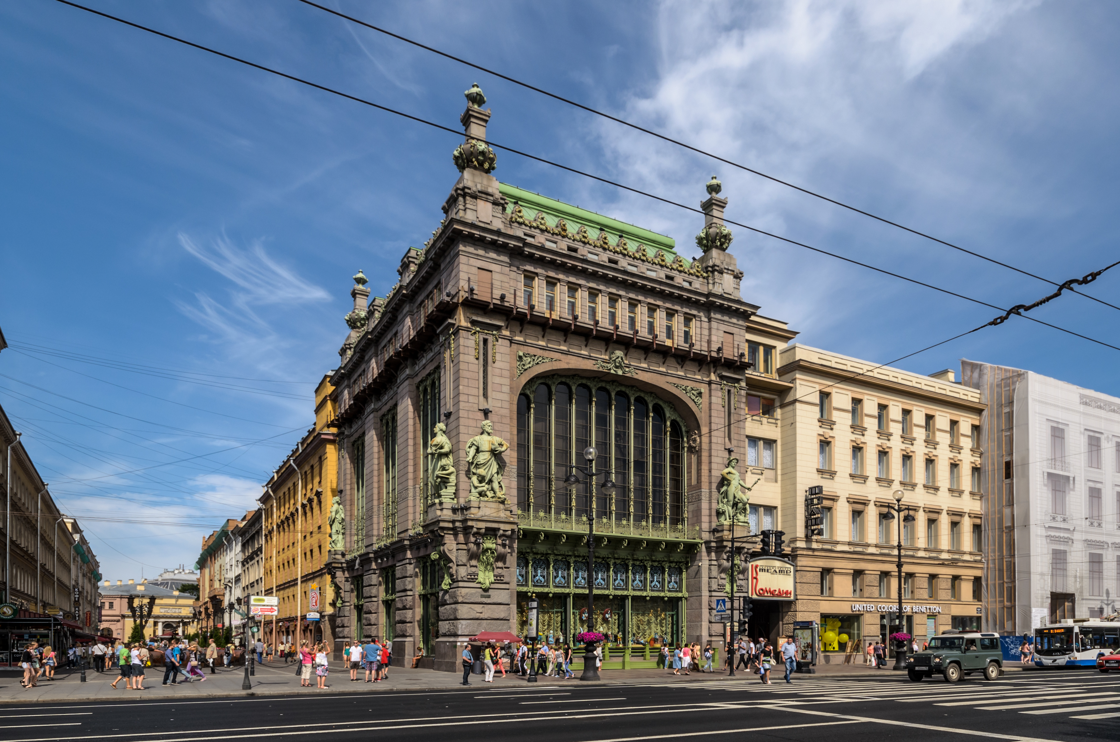 Eliseevs' House in Saint Petersburg